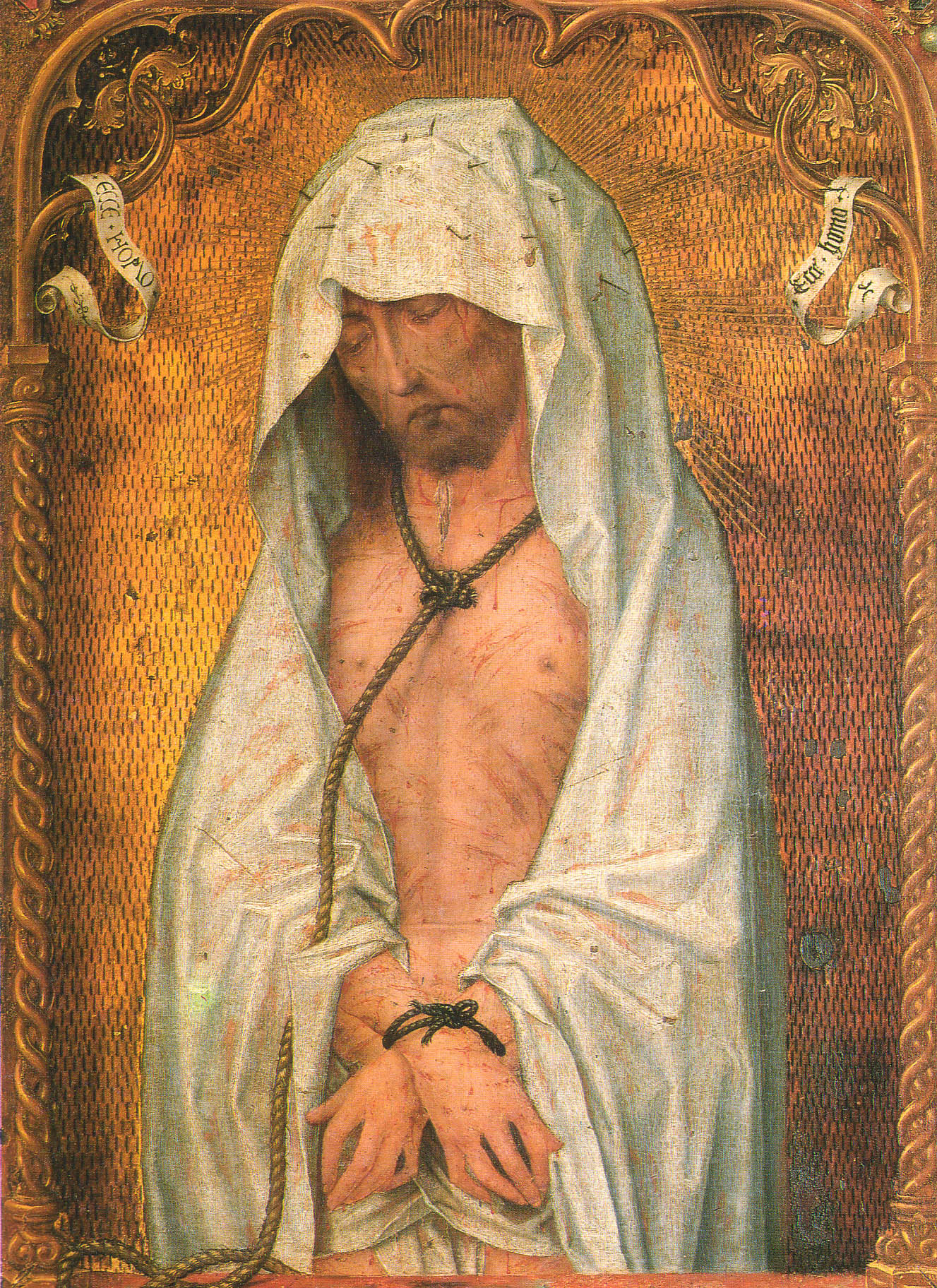 Ecce Homo